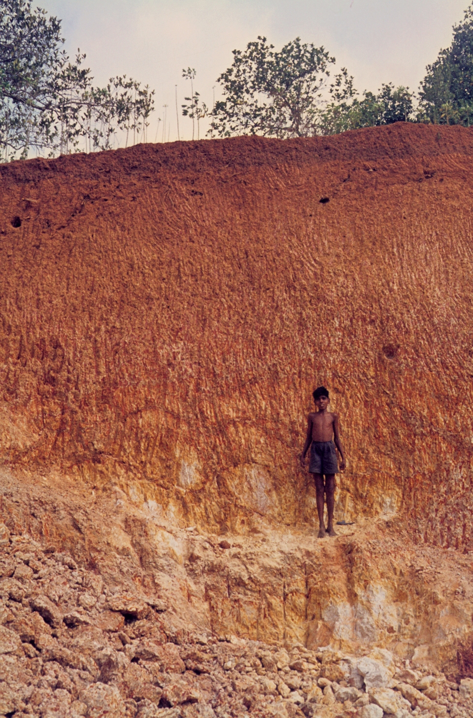 The lateritic weathering section on granitic gneiss shows the transition from mottled saprolite to weakly indurated brown laterite beneath a thin lateritic soil. Trivandrum, Kerala, India